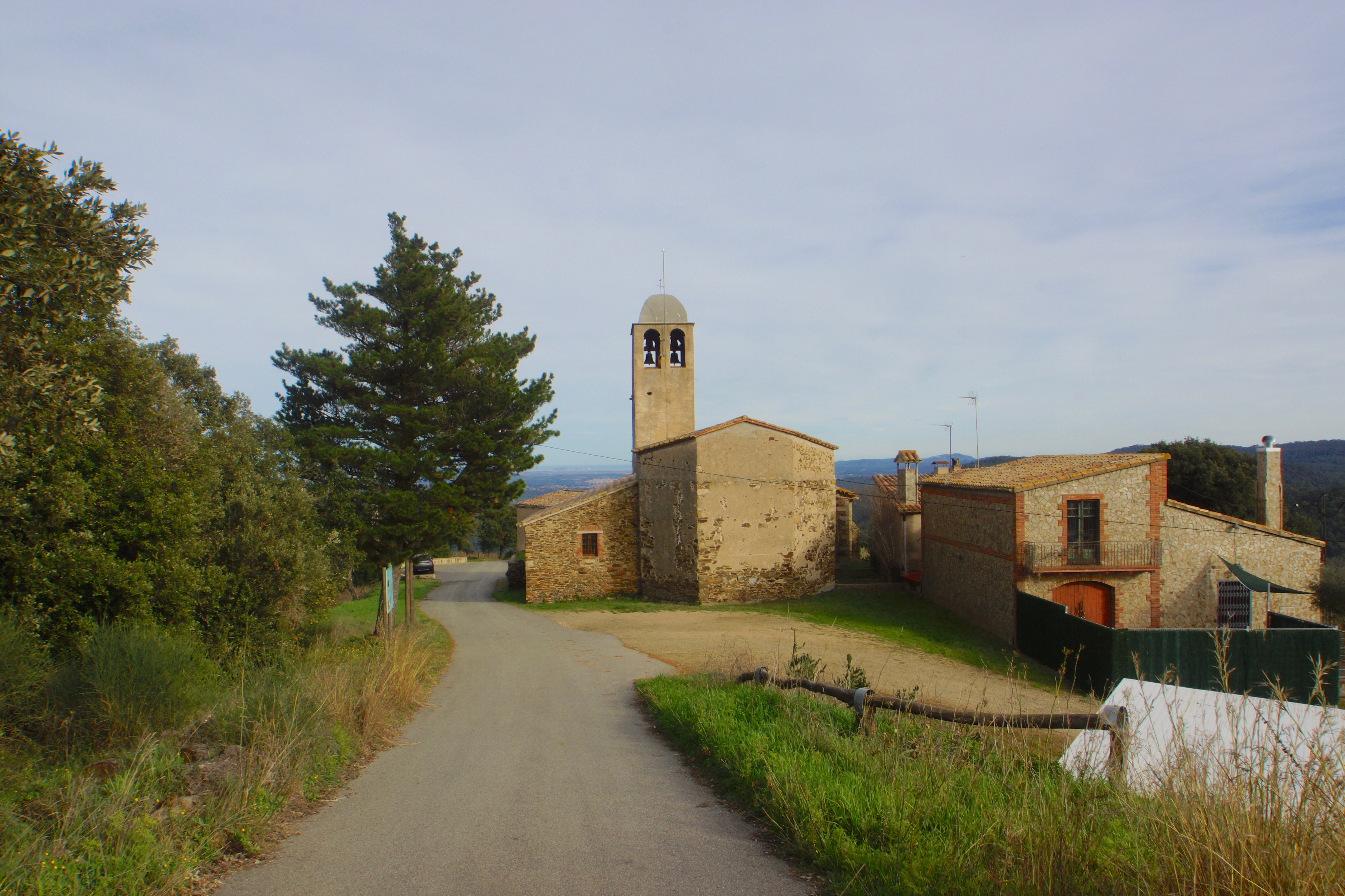 Cruïlles, Monells i Sant Sadurní de l'Heura (Santa Pellaia), Catalonia: Panorama